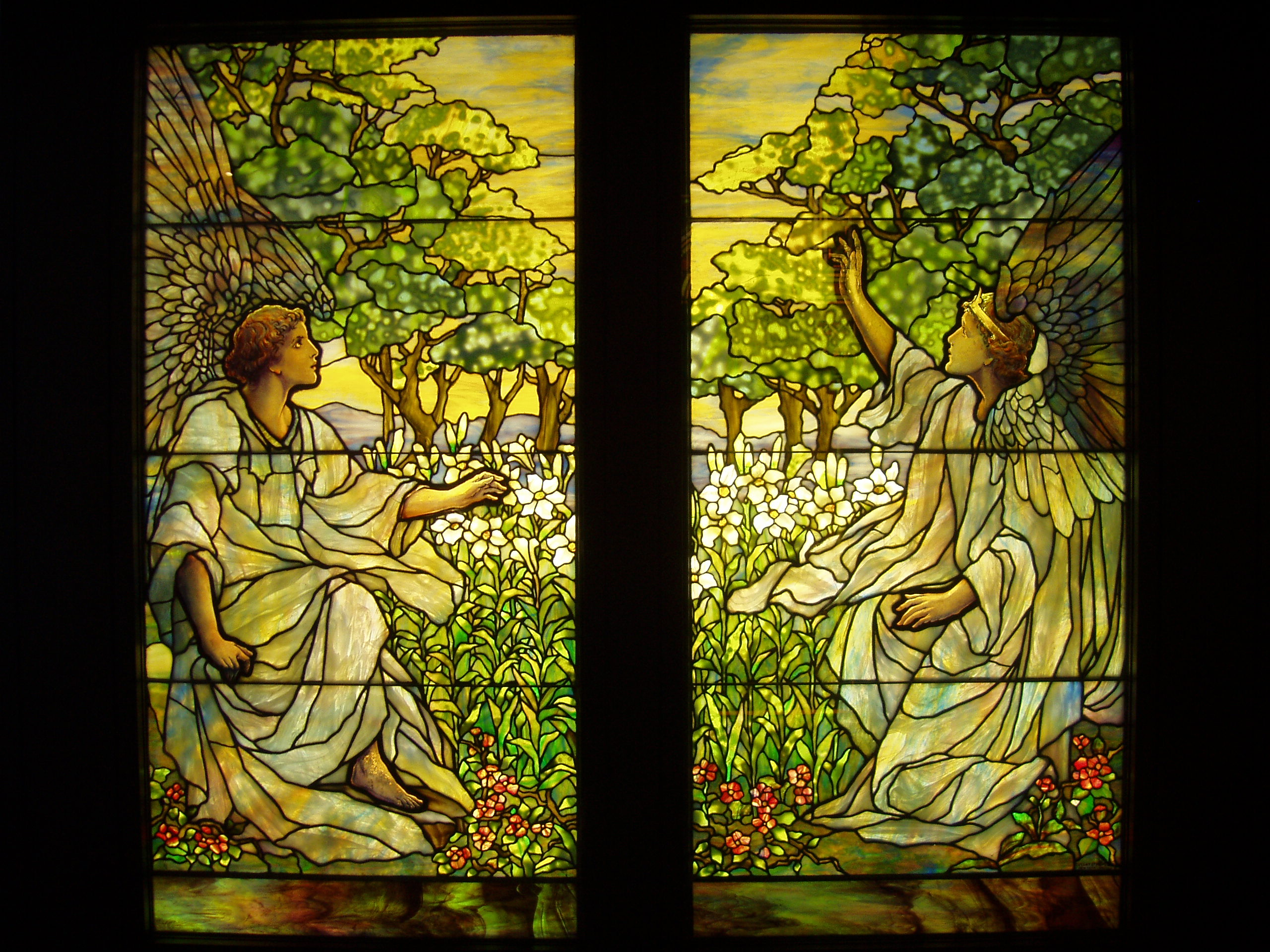 \Two Angels - Tiffany Studios, c. 1910.